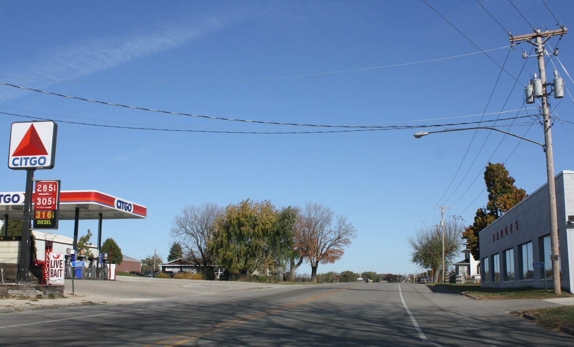 Looking north at downtown Waucousta, Wisconsin on U.S. Route 45.